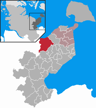 This map shows the area of the Gemeinde (municipality) Wangels in the Kreis (district) Ostholstein, Schleswig-Holstein, Germany.